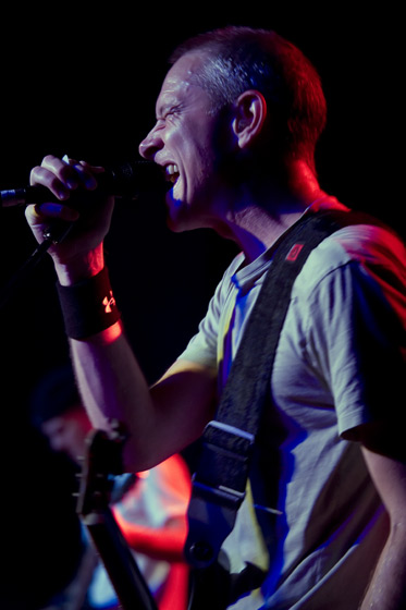 Helmet3 The Hifi Bar, Melbourne May 2008